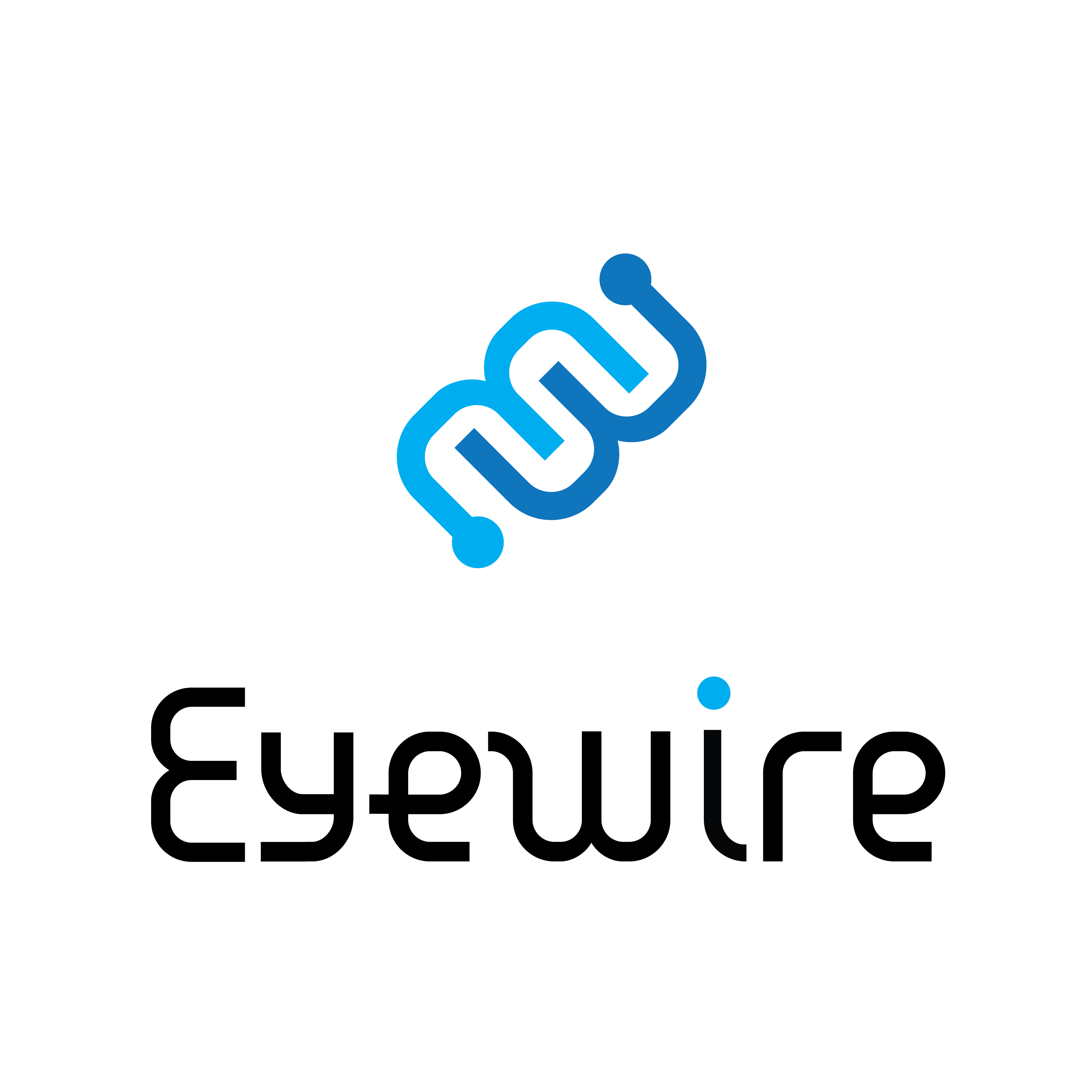 New logo for the EyeWire project.